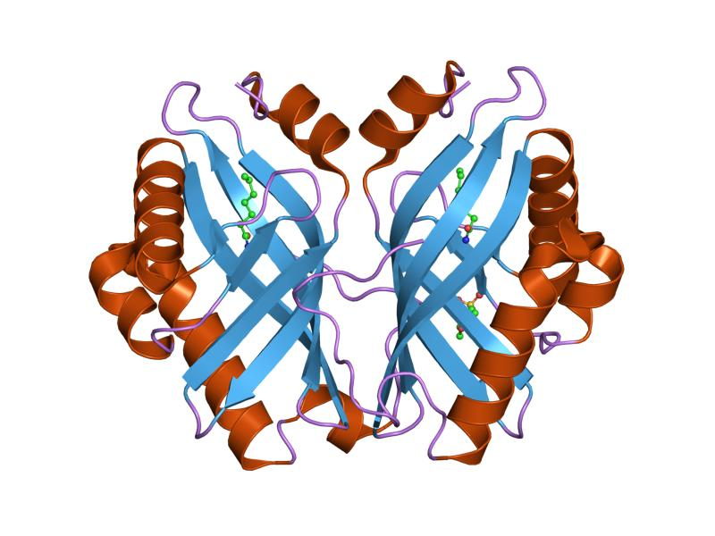 Cartoon representation of the molecular structure of protein registered with 1nww code.